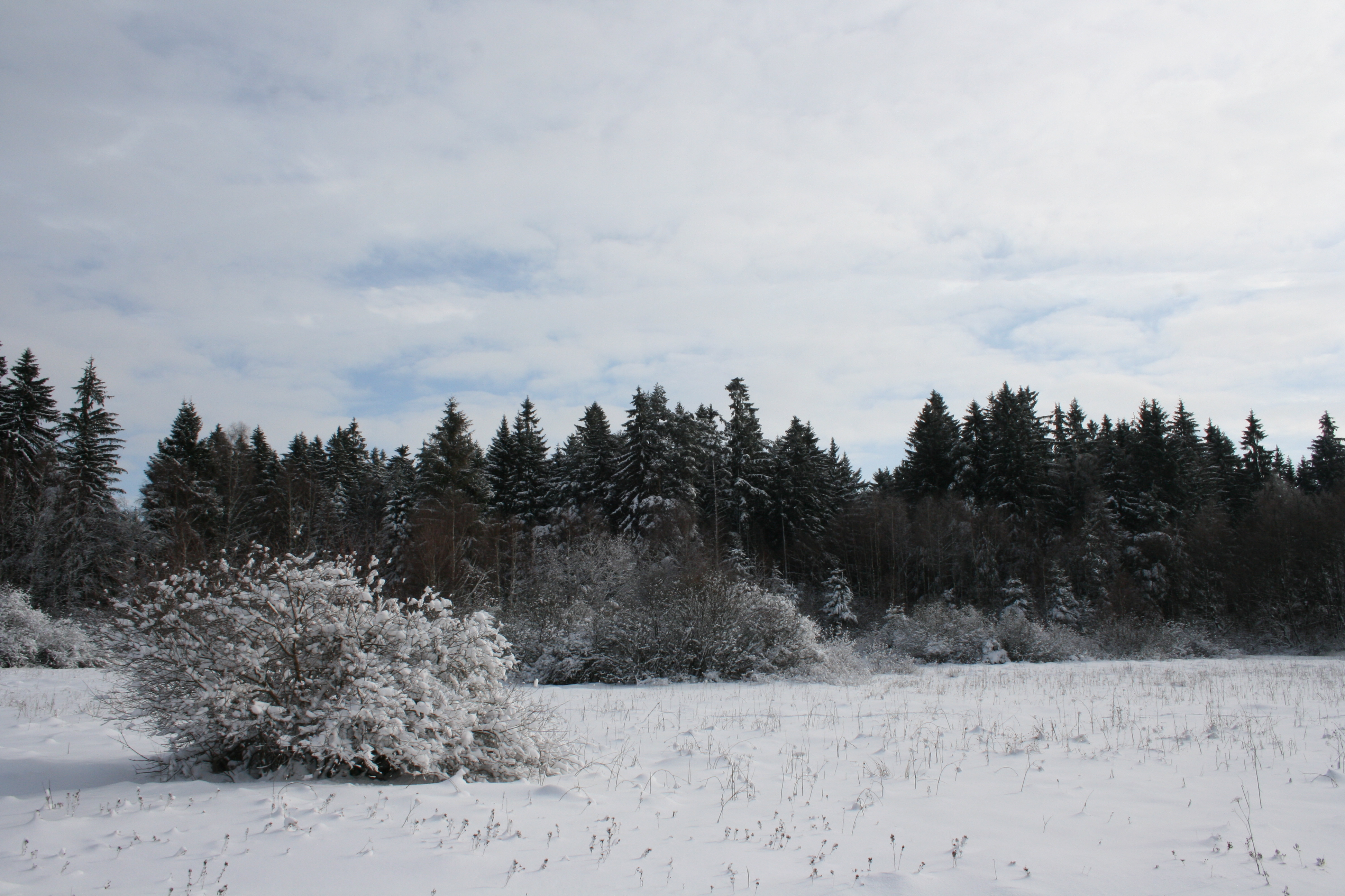 Natural reservation Kaproun, Jindřichův Hradec district, Czech Republic.